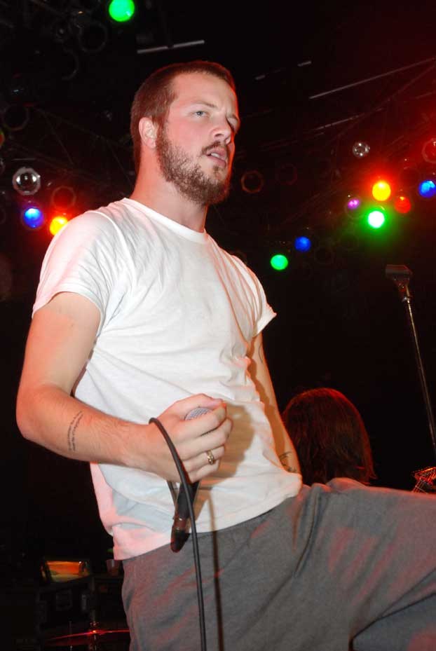 Rody Walker, lead vocals, the band Protest the Hero. Photo taken at the House of Blues in Chicago, IL, USA by Adam Bielawski